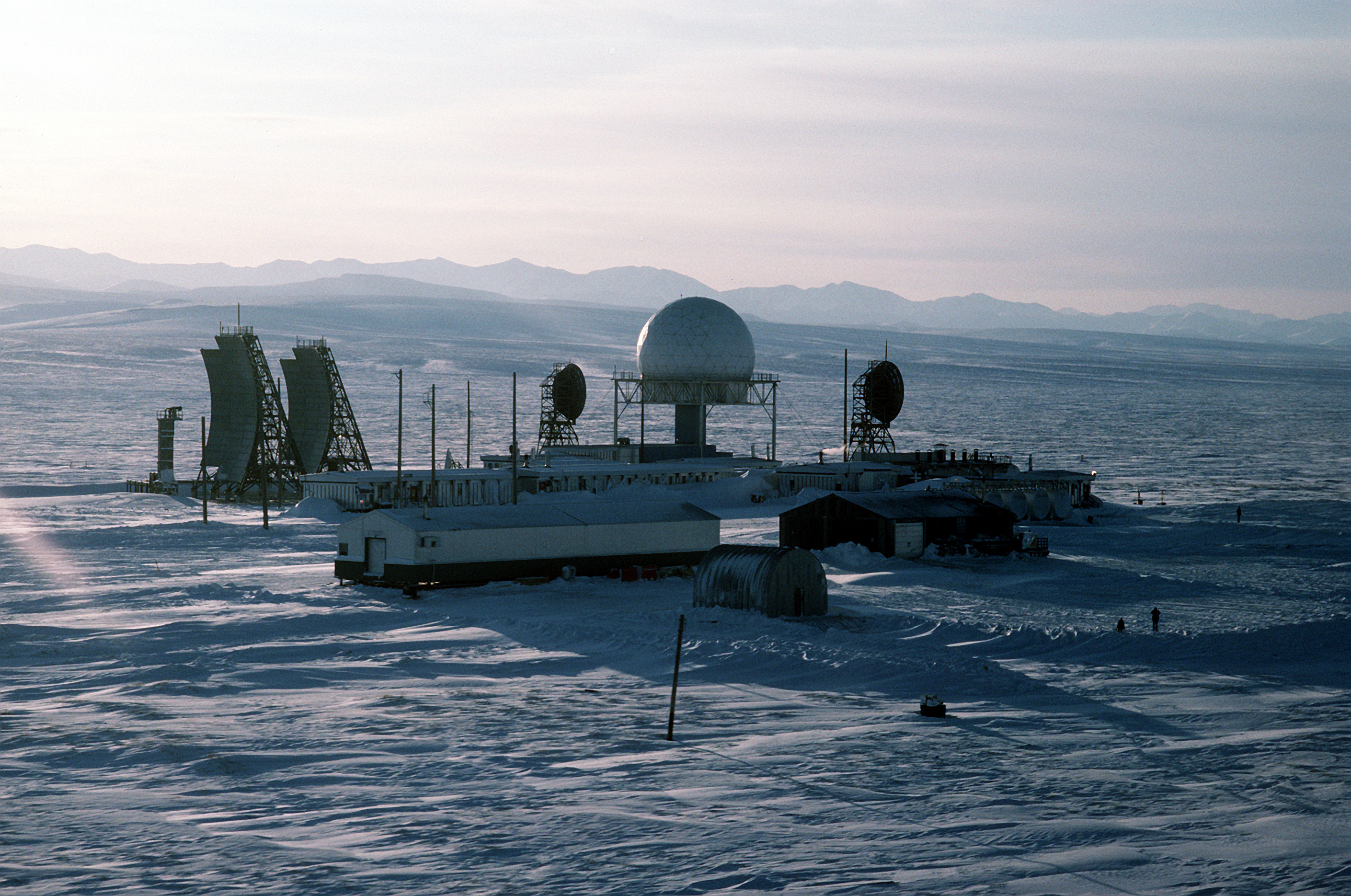 An aerial view of the radar station LIZ-2, one of 30 stations under U.S. Air Force control on the Distant Early Warning (DEW) Line which runs approximately 3,600 miles, from Alaska, across Northern Canada to Greenland.Location: POINT LAY, ALASKA (AK) UNITED STATES OF AMERICA (USA)